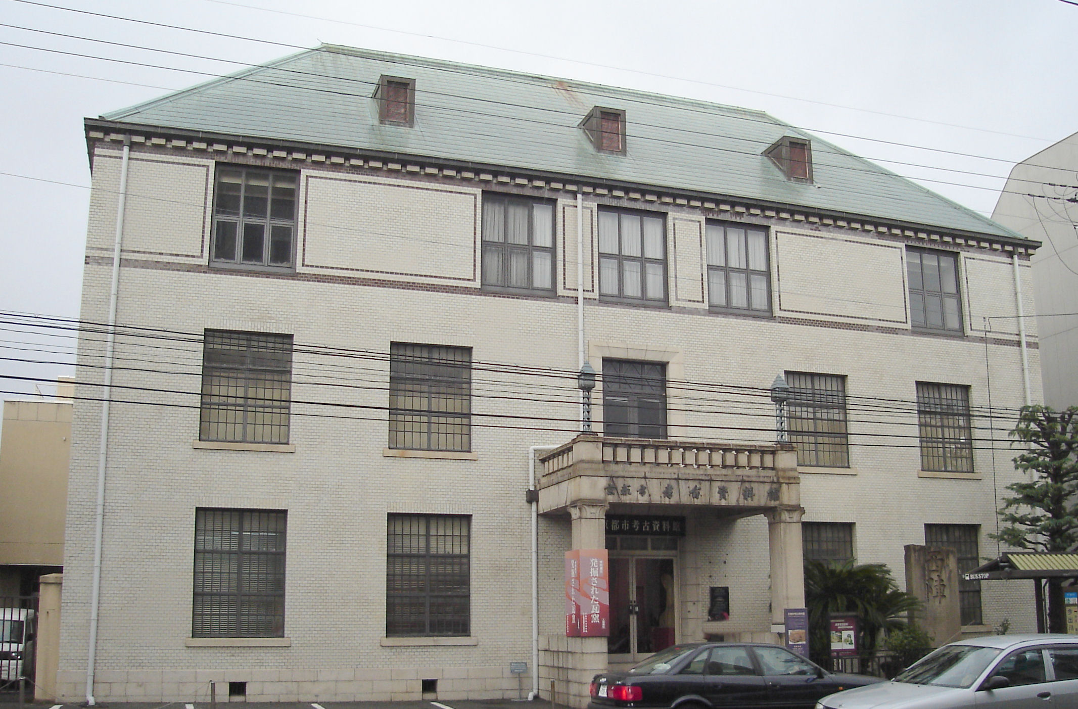 Kyoto City Archaeological Museum (Kyotoshi Kouko Shiryokan) , Kyoto, Japan